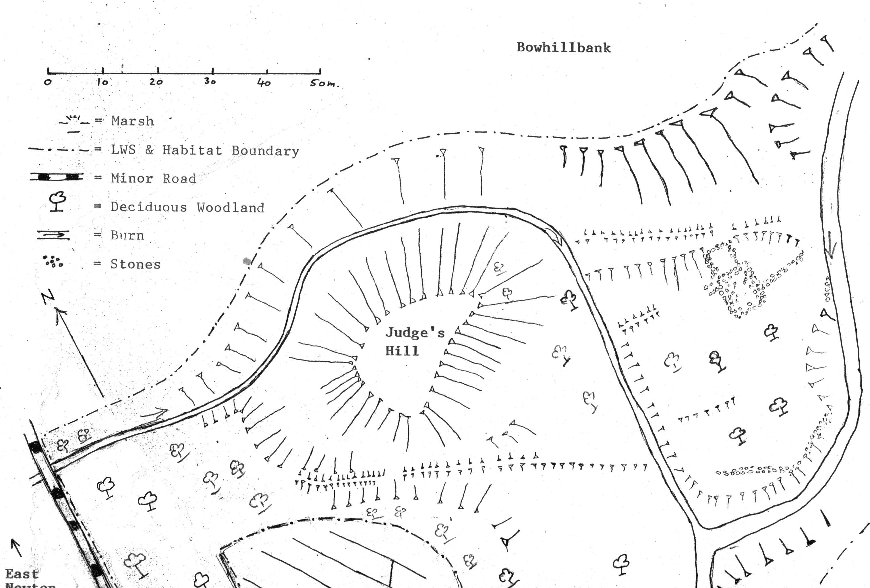 A map of the Judge's Hill, Galston Ayrshire, Scotland.